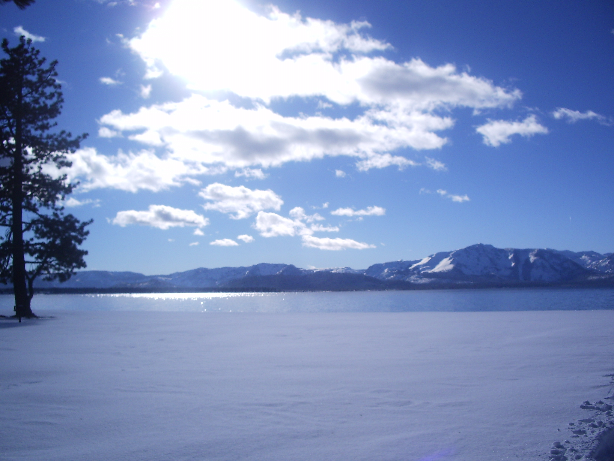 Nevada Beach, Zephyr Cove, NV January 15th 2006 - Marie Alice Dibon - Pentax Optio 6.0